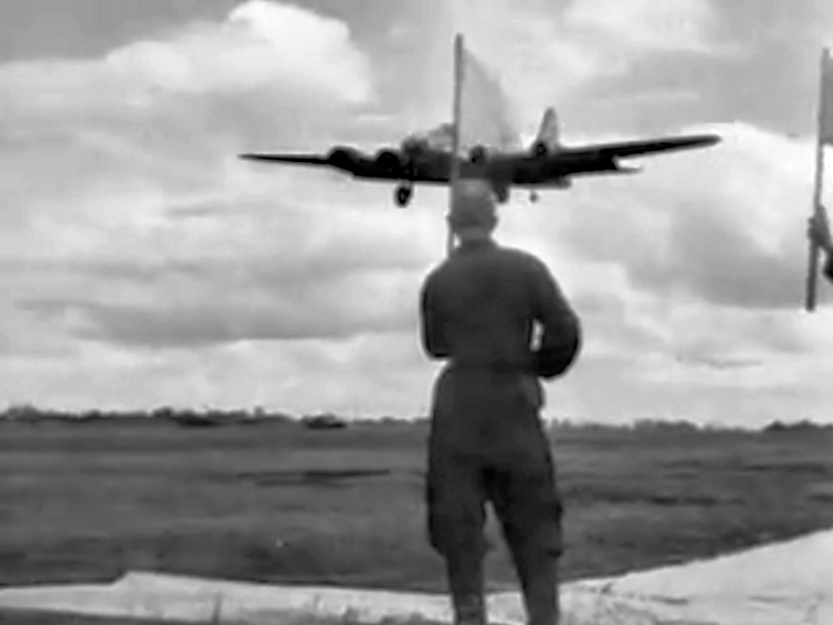 B-17 aircraft of 15th USAAF arriving at Poltava Airfield, Ukraine, 2 June 1944